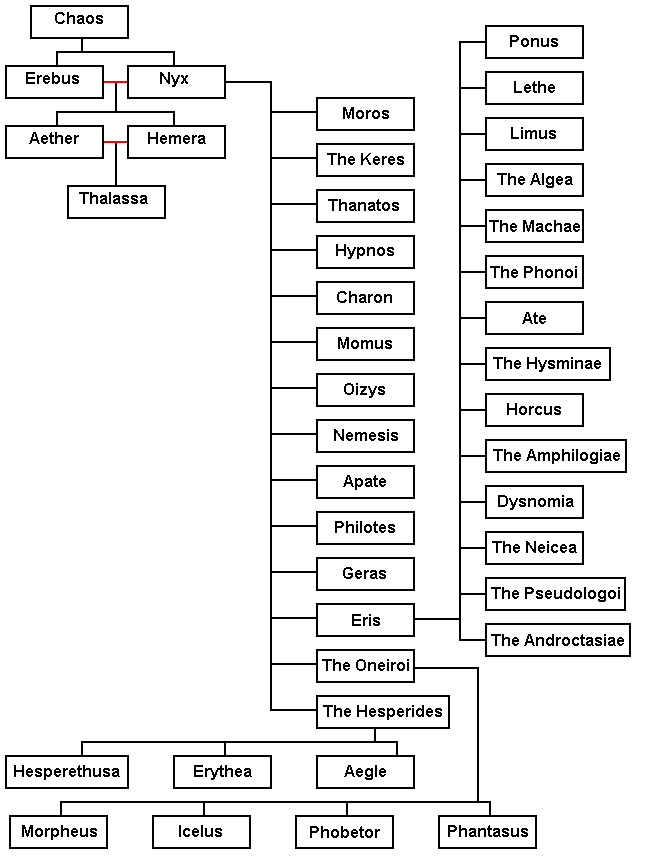 This is an image of Greek mythological characters.